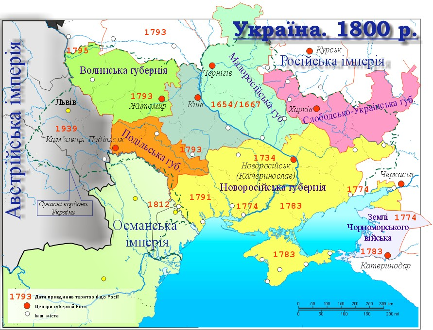 Ukraine in 1800